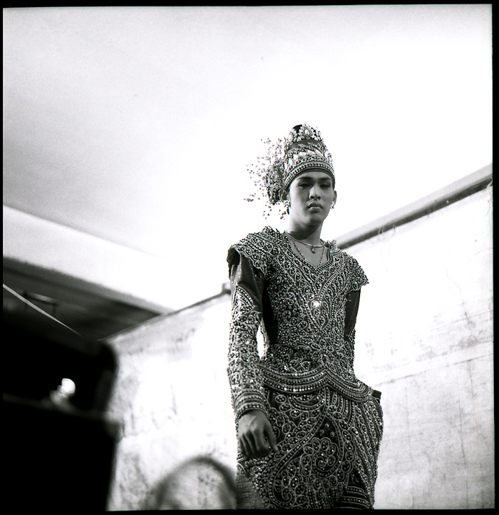 25 Jan '08 Camera : Rolleiflex2.8D Film : Fomapan 100 push 3 stop ลิเกสามสมัย สมชาย บุตรสำราญ, BKK, Thailand